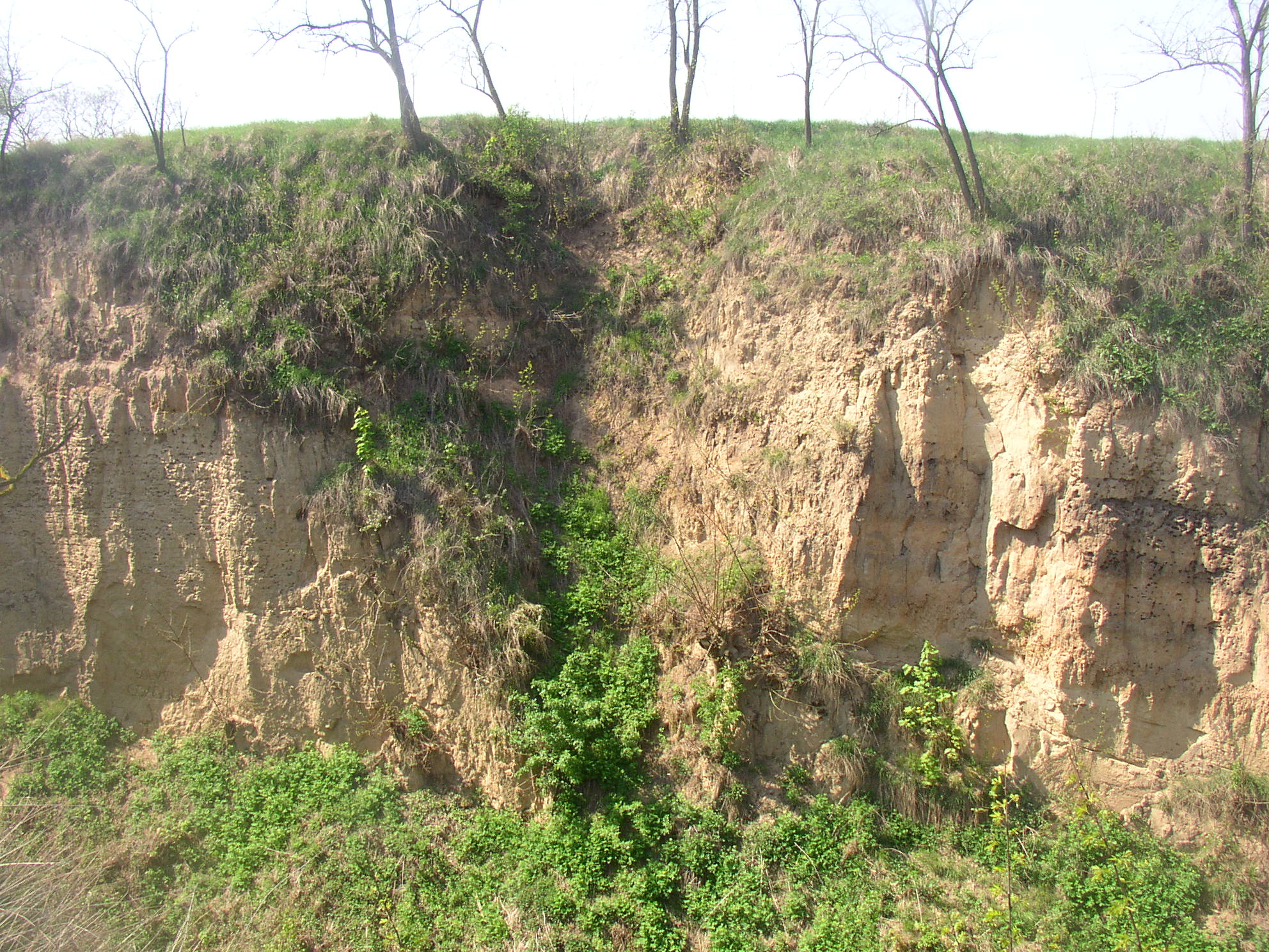 Loess Gully near Zeměchy Natural Monument, Zeměchy, part of Kralupy nad Vltavou town, Mělník District, Czech Republic. Wall of the gully as seen from upper edge.